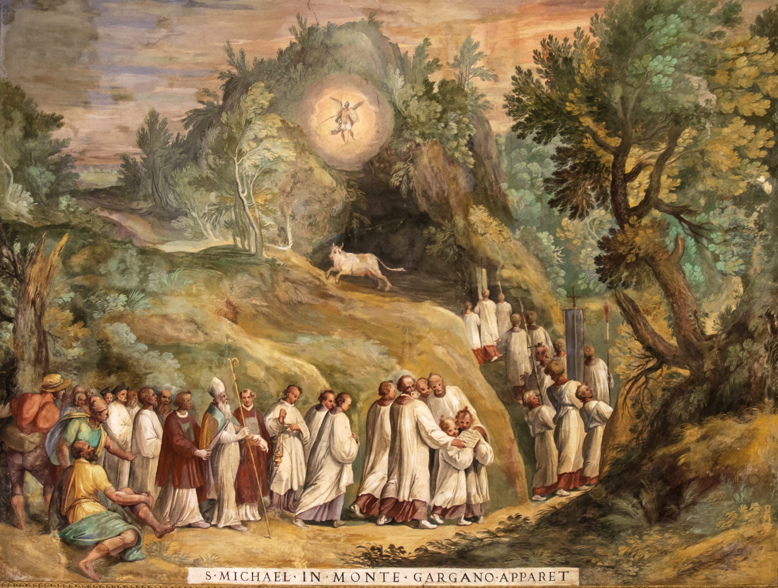 Arch Angel Michael appearing at Monte Gargano